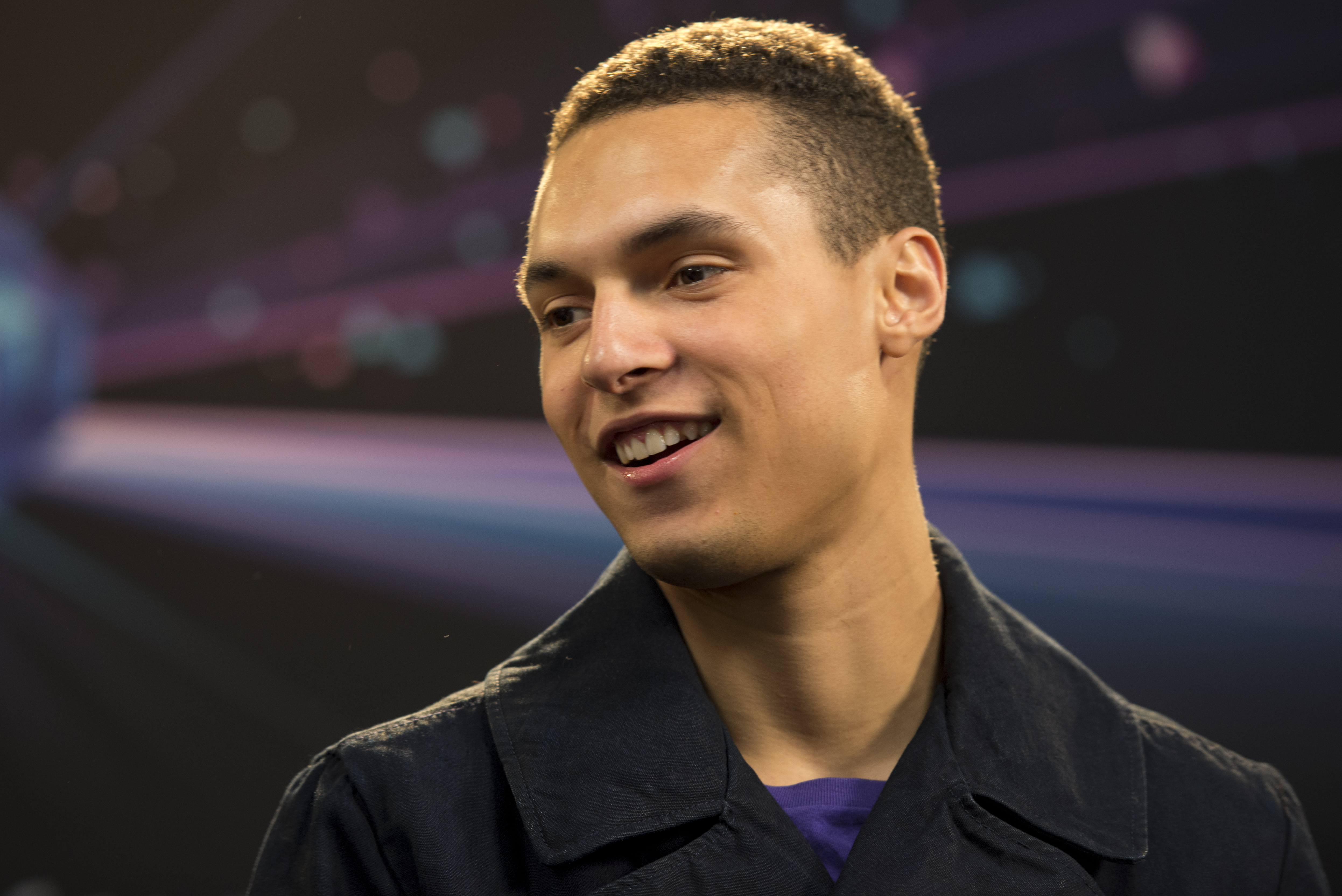 RiskyKidd from Freaky Fortune and Shane Schuller at a Meet & Greet during the Eurovision Song Contest 2014 Copenhagen. (Help translate this text)